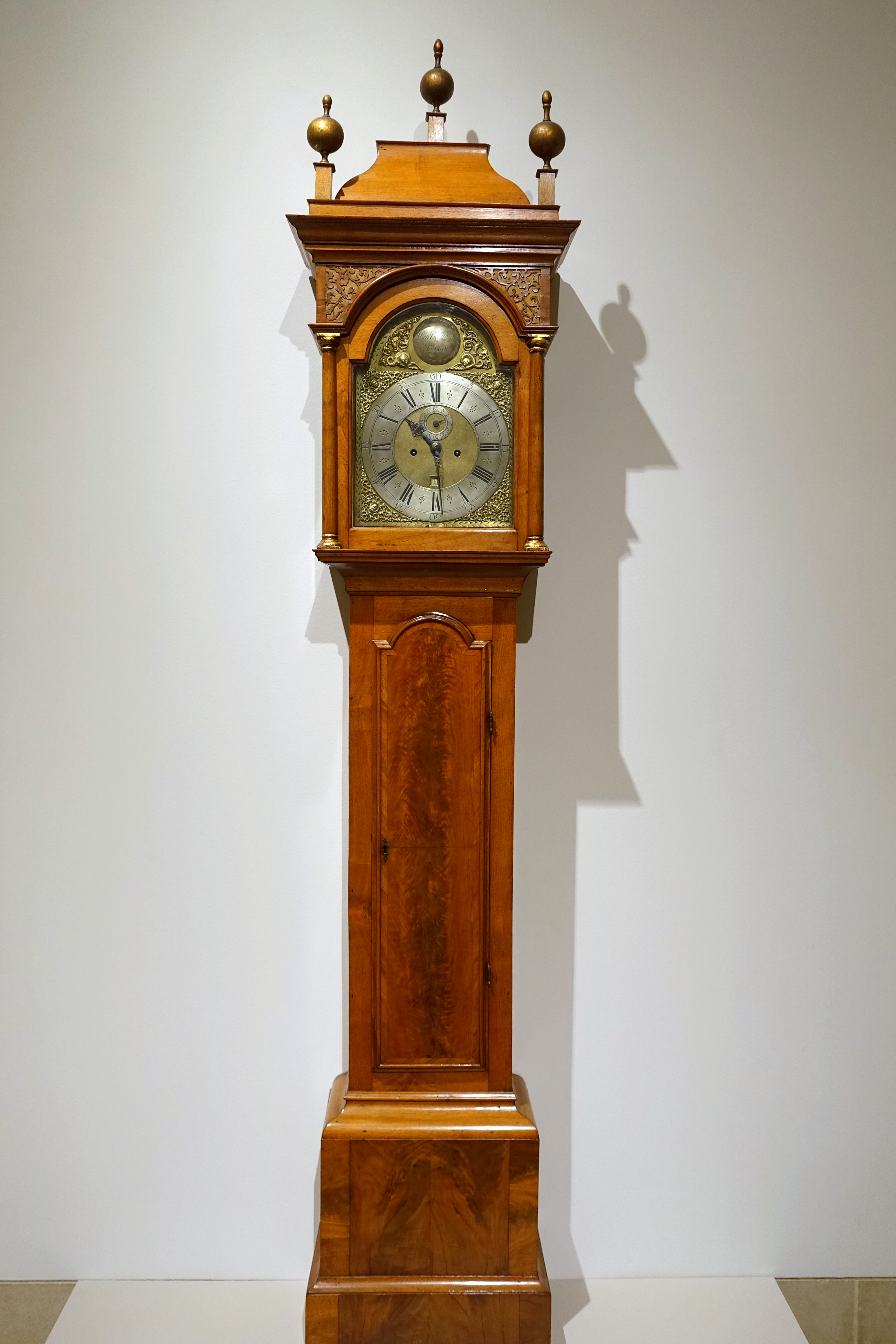 Exhibit in the Dallas Museum of Art, Dallas, Texas, USA.